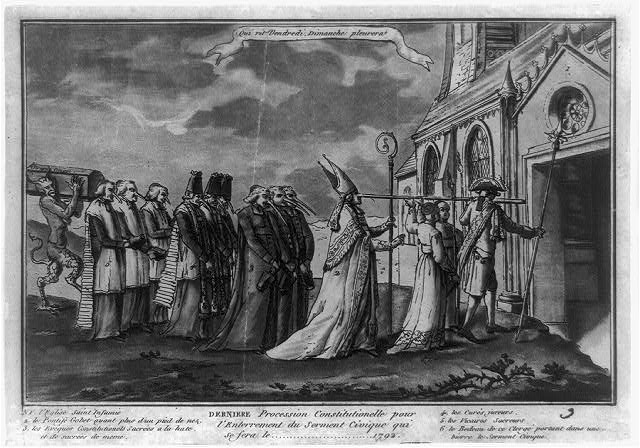 "Qui rit vendredi, dimanche pleurera. Derniere procession constitutionnelle pour l'enterrement du serment civique qui se fera le ___ 1792." Caricature of bishop of Paris, Jean-Baptiste Gobel (1727-1794), followed by a procession of members of the clergy with long noses and a devil holding a casket of civil oaths bringing up rear. Represents priests who were against the civil constitution and were massacred on September 3, 1792, after refusing to swear the oath of loyalty.